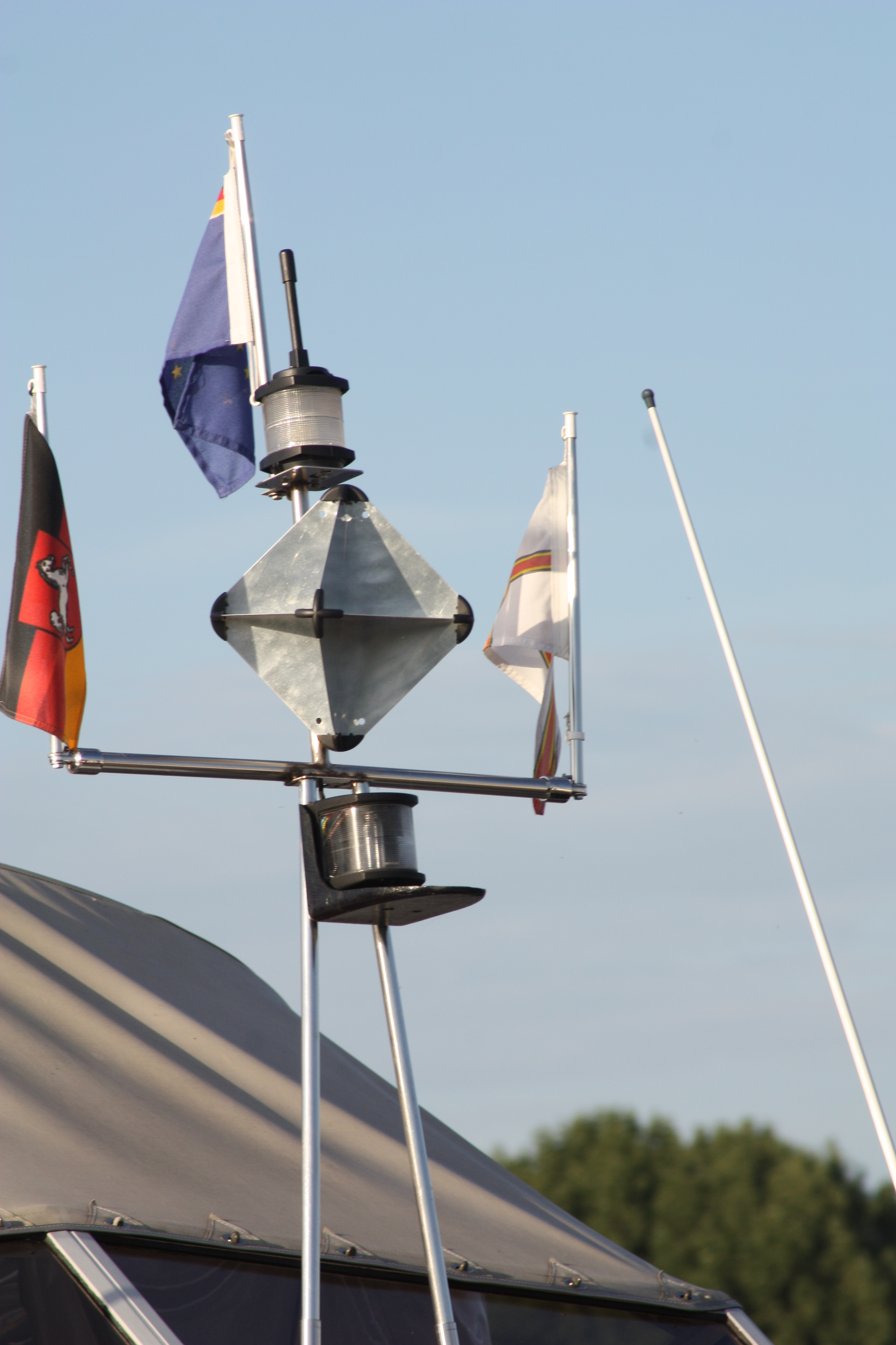 A radar corner reflector (diamond-shaped metal object) on the mast of a yacht. This reflects microwave radar signals from any direction back toward the source. It is used to increase the radar "return" of the ship so it is more visible on the radar screens of nearby ships.